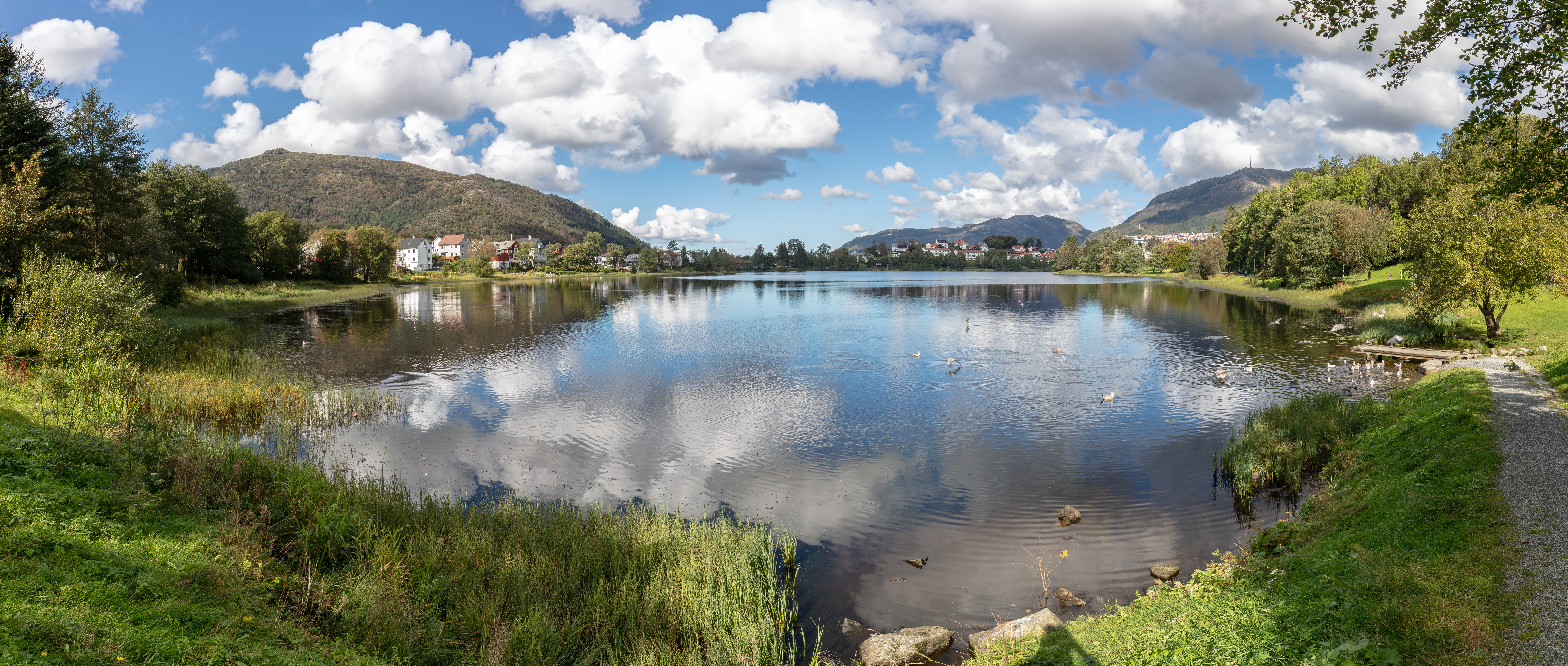 Lake Tveitevannet, Bergen, Norway